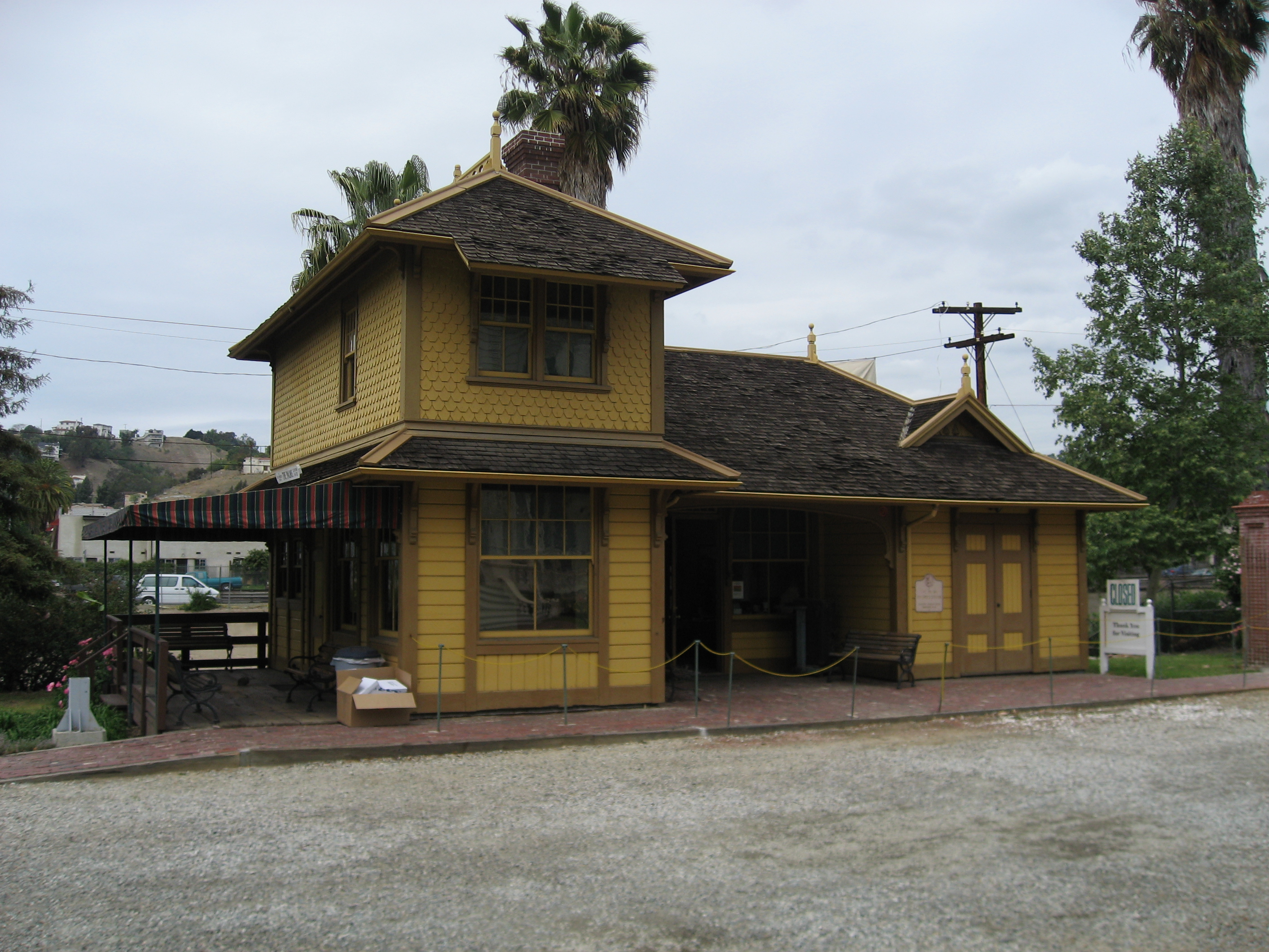 The Palms Depot — at Heritage Square Museum, north-central Los Angeles, California. The Palms Depot was built circa 1875 in Palms (West Los Angeles), for the Los Angeles and Independence Railroad, and was absorbed into the Pacific Electric Railway in 1911. The Eastlake style of Victorian Queen Anne architecture train station is a Los Angeles Historic-Cultural Monument. Now located at the open air Heritage Square Museum (with 7 other historic buildings), in the Arroyo Seco (3800 Homer Street), Los Angeles.